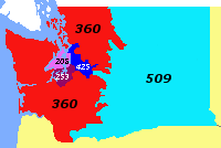 Map showing area codes for the state of Washington in 5 colors.